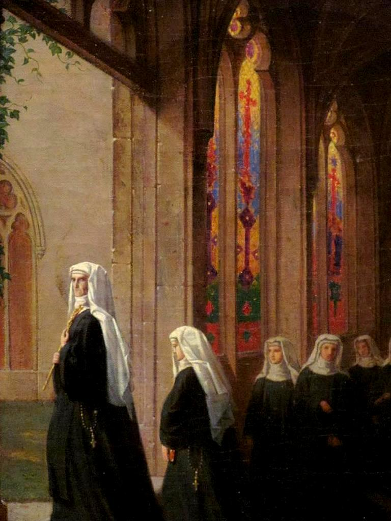 Close-up of the left half of the painting "Lady Clara de Clare", inspired by original poem "Marmion" (1808) by Walter Scott. Located at Virginia Museum of Fine Arts in Richmond, Virginia.